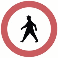 Diagram of road signs of Luxembourg